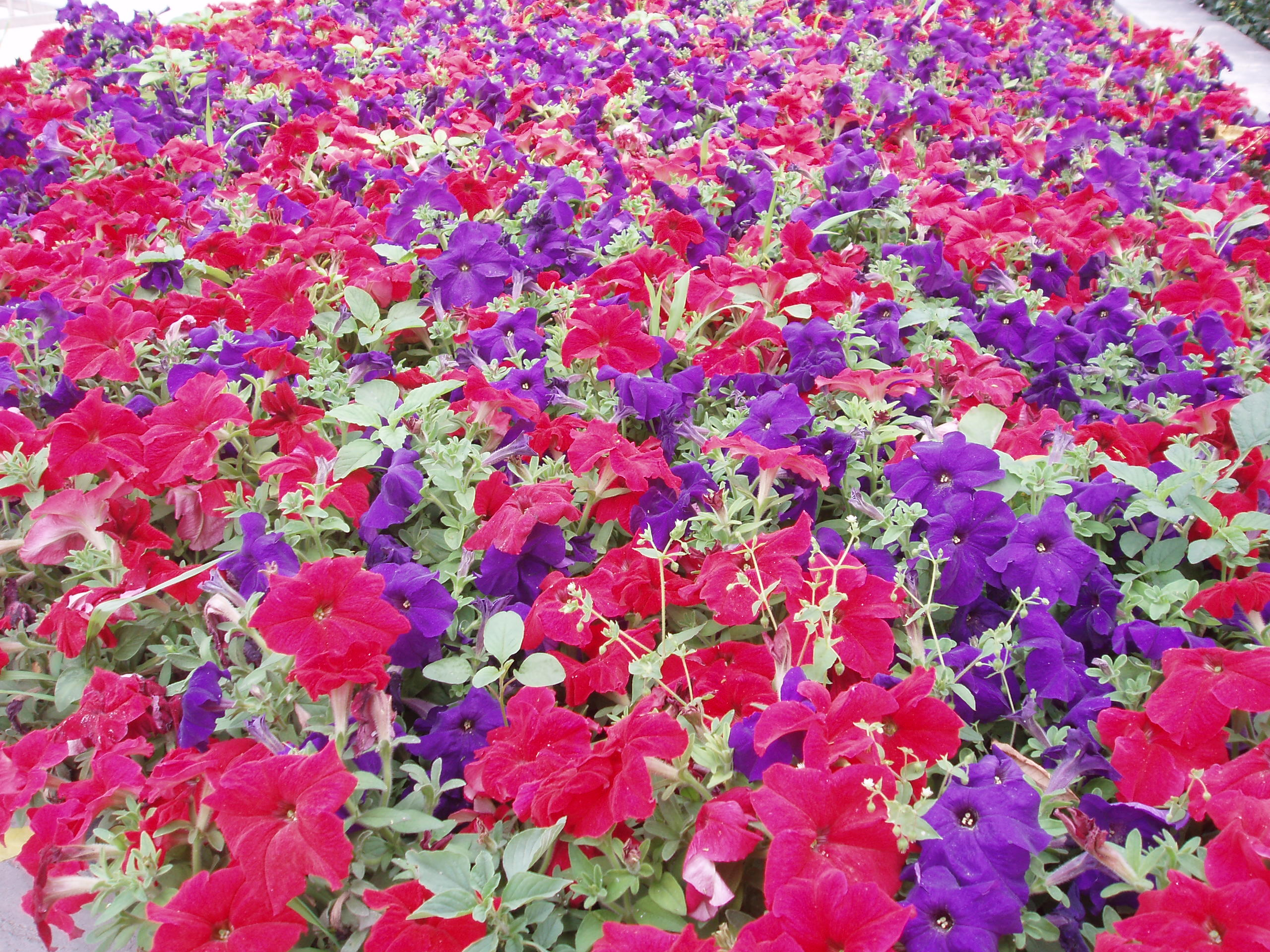 Petunia flowers